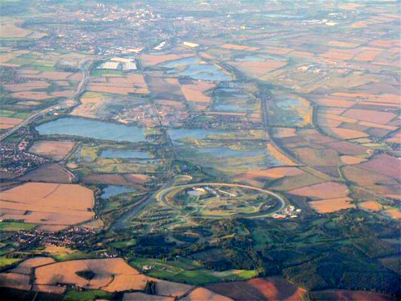 Millbrook Vehicle Proving Ground. Originally developed in the 1960s by General Motors, now one of Europe's leading locations for the development and demonstration of all types of land vehicles - motor-cycles, cars, commercial and military vehicles. Compare with Stanley Howe's similar image from 1978 855809. Beyond that are the lakes that are the remains of the Stewartby Brickworks clay pits, and Bedford. From an EasyJet flight from Luton to Edinburgh.